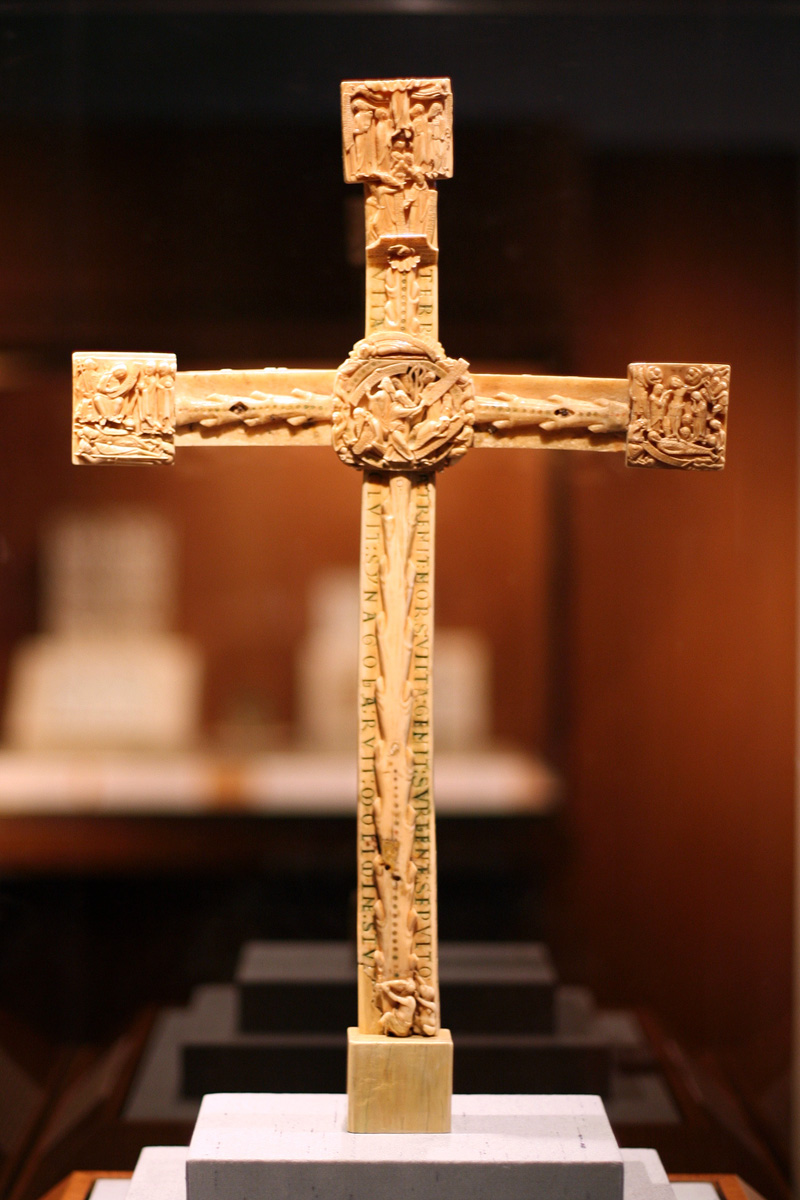 The Cloisters Cross, 12th century English Walrus ivory; 22 5/8 x 14 1/4 in. (57.5 x 36.2 cm) The Metropolitan Museum of Art, New York, The Cloisters Collection, 1963 (63.12) View at the Metropolitan Museum of Art website Wikipedia Loves Art at the Metropolitan Museum of Art This photo of item # 63.12 at the Metropolitan Museum of Art was contributed under the team name "shooting_brooklyn" as part of the Wikipedia Loves Art project in February 2009. Metropolitan Museum of Art The original photograph on Flickr was taken by shooting brooklyn—please add a comment to the original Flickr page whenever a use has been made on Wikipedia or another project. Project galleries on Flickr: this institution, this team